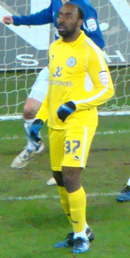 22/02/11 Cardiff V Leicester, Championship, Cardiff City Stadium, Cardiff, Wales